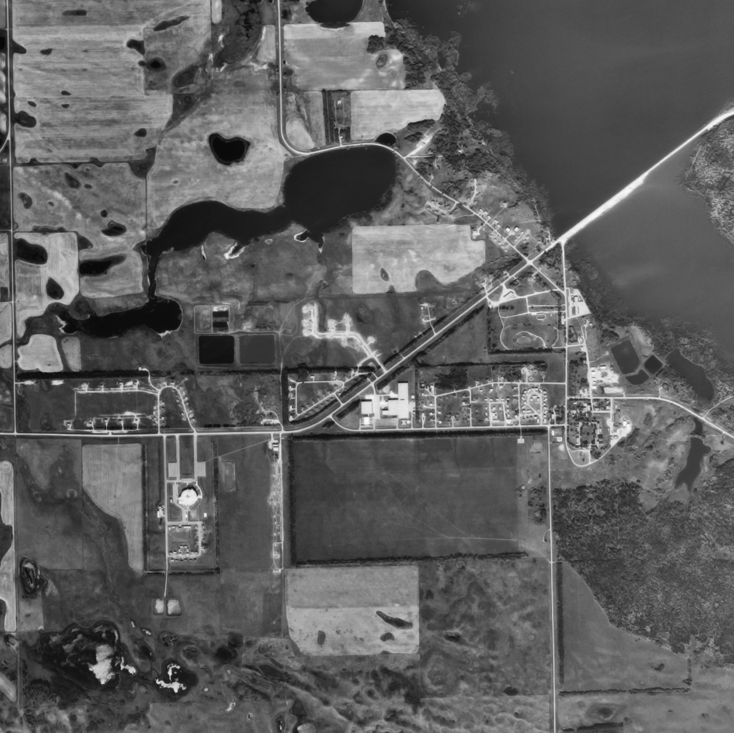 Aerial photograph of Fort Totten, North Dakota (1997)